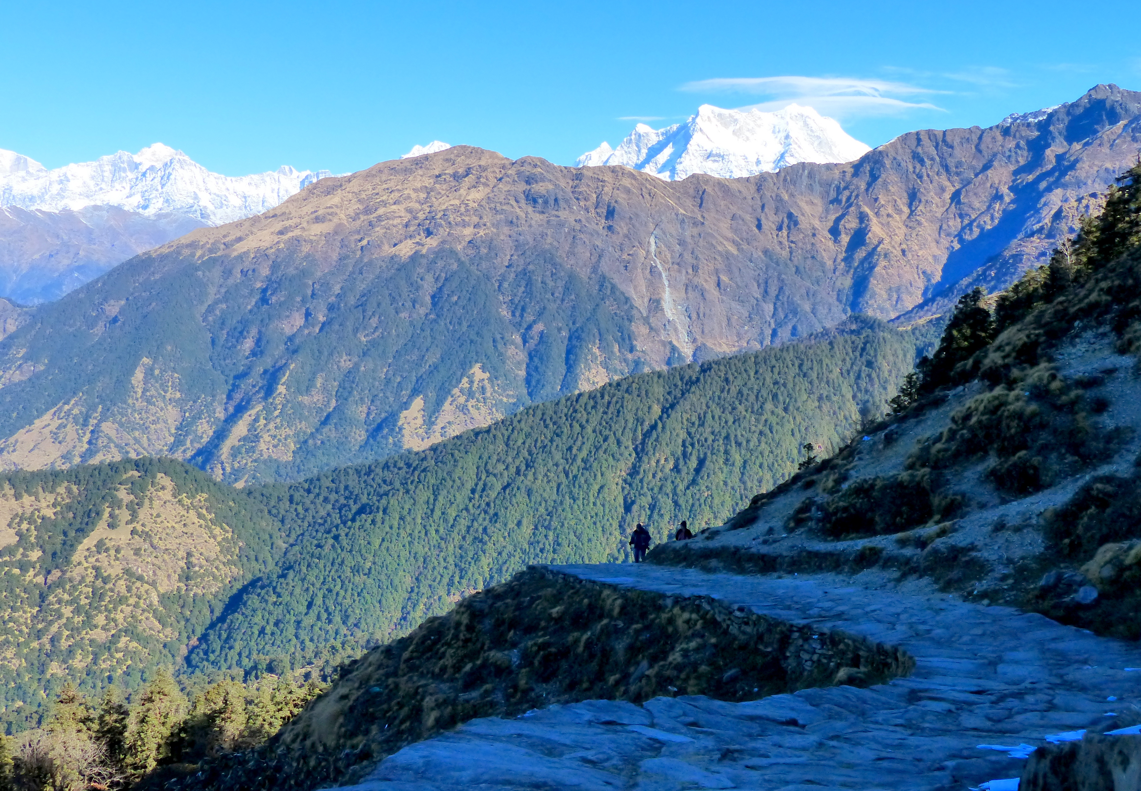 Uttarakhand (Hindi: उत्तराखण्ड, Sanskrit:उत्तराखण्डराज्यम्), formerly Uttaranchal, is a state in the northern part ofIndia. Uttarakhand is mainly known for its natural beauty of the Himalayas, the Bhabhar and the Terai. On 9 November 2000, this 27th state of the Republic of India was carved out of the Himalayan and adjoining northwestern districts of Uttar Pradesh. Two important rivers of India originate in the region, the Ganga at Gangotri and the Yamuna at Yamunotri. It is home to many holy Hindu temples and pilgrimage centres found throughout the state. The natives of the state are generally called either Garhwali or Kumaoni depending on their place of origin. According to the 2011 census of India, Uttarakhand has a population of about 10 million.